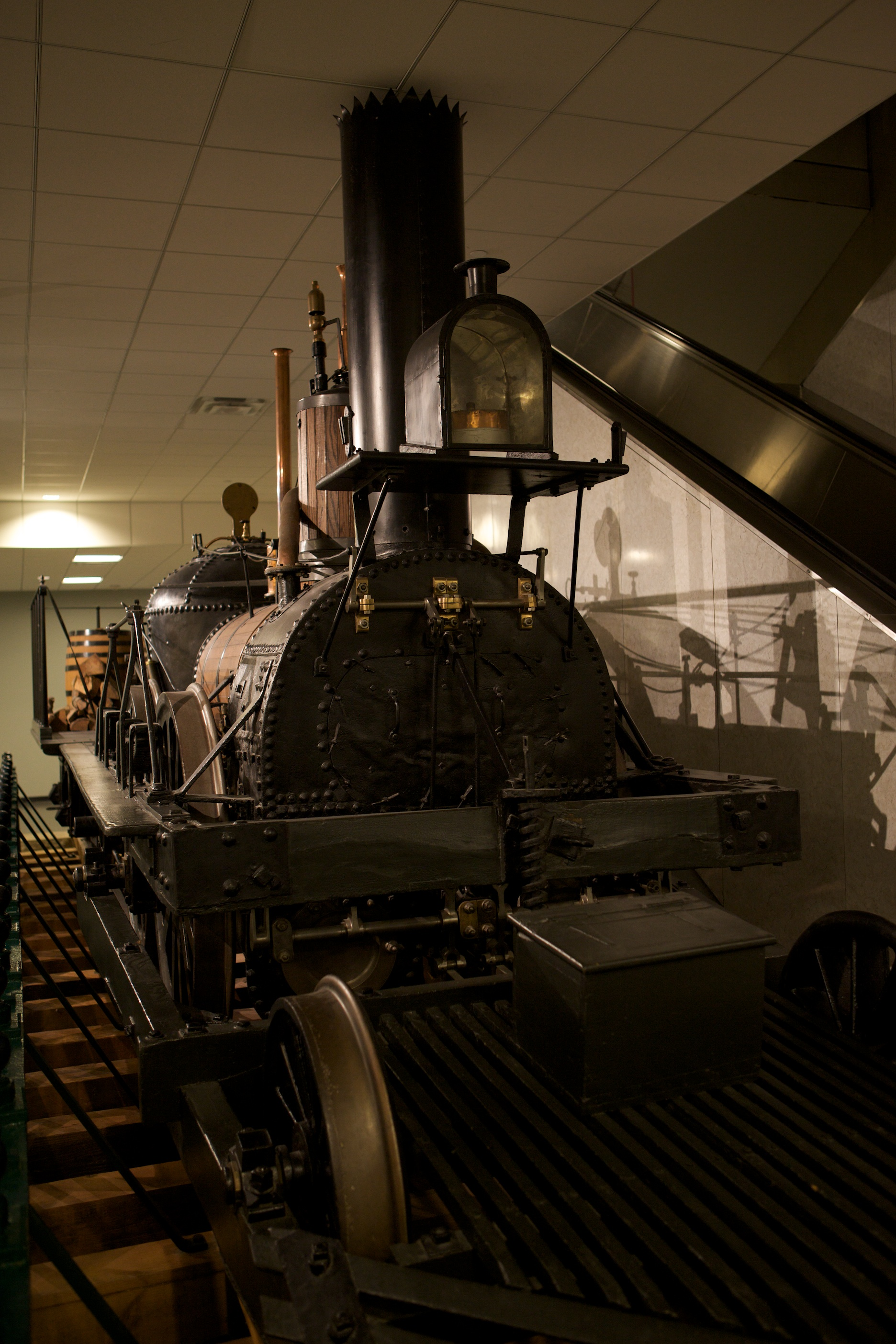 "John Bull" locomotive, from 1831, A marvel of its era.